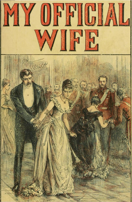 Dust jacket cover of 1892 English edition of 1891 novel "My Official Wife"